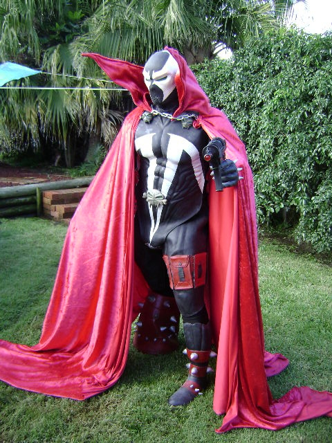 Cosplay de Spawn